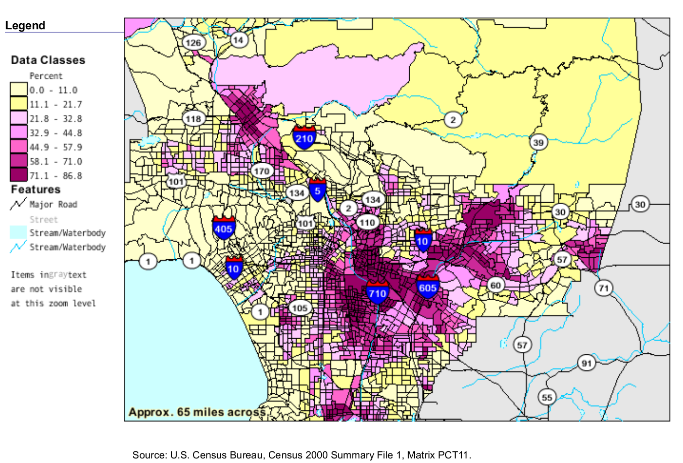 Percentage of ethnically Mexican population in Los Angeles County by census tract 2000